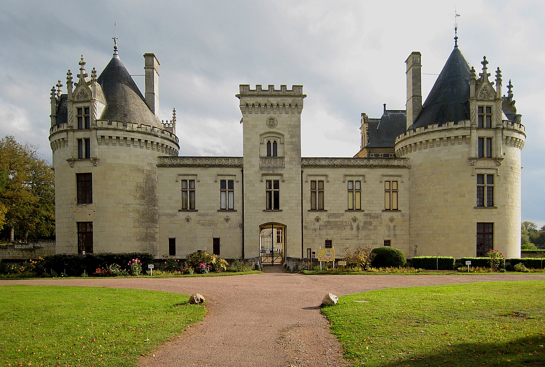 Entrance of the Castle of Brézé, located in the departement of Maine-et-Loire, France.